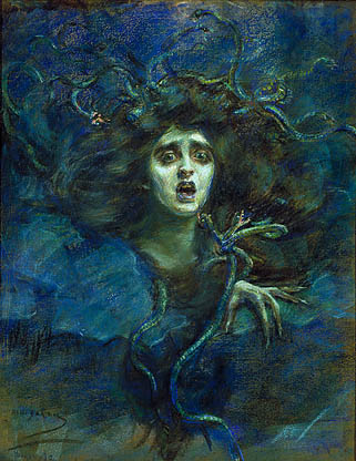 Medusa